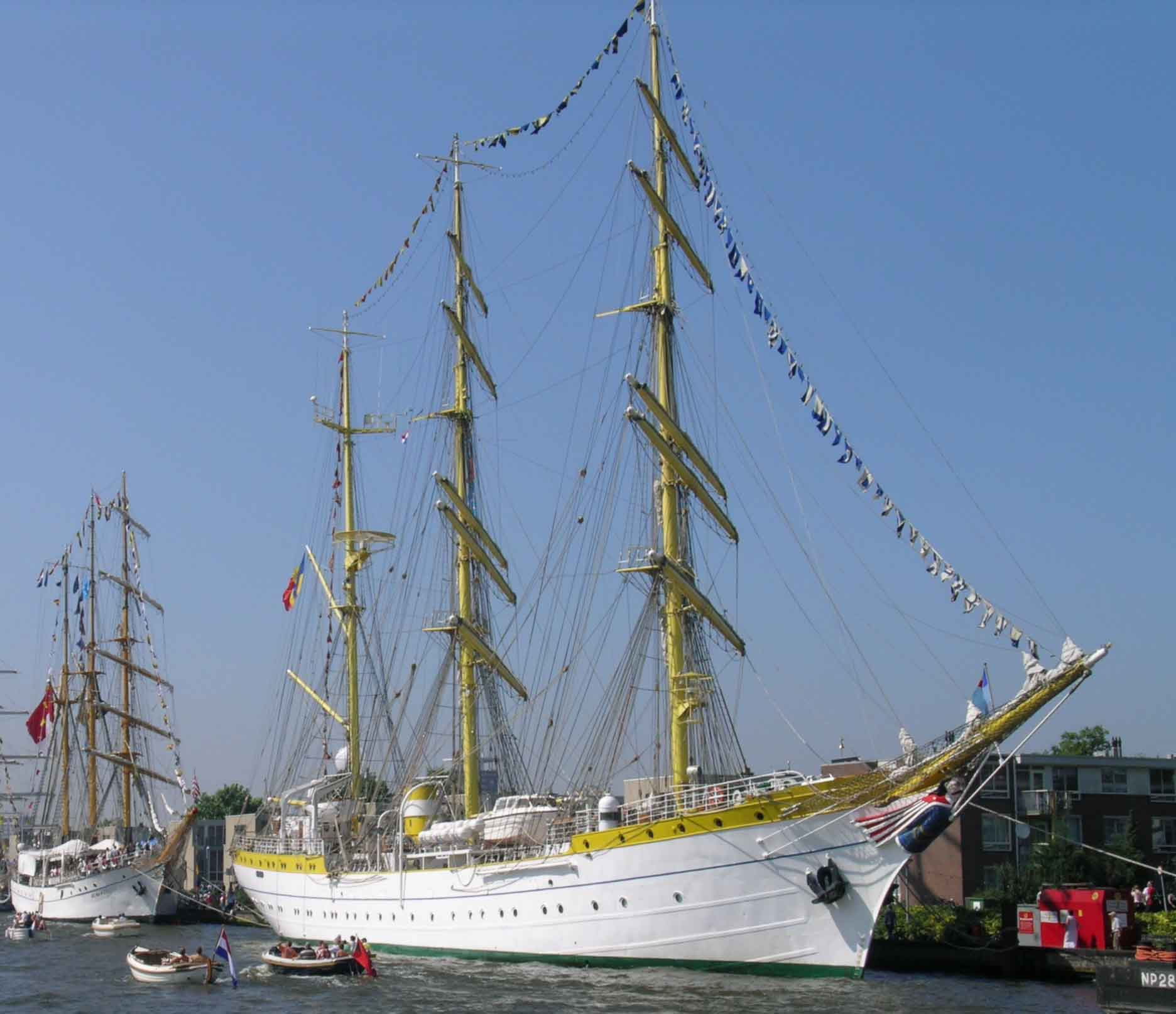 Photograph by Dirk van der Made (User:DirkvdM - for more photos see user:DirkvdM/Photographs). The tall ship Mircea at SAIL Amsterdam, 18 August 2005.